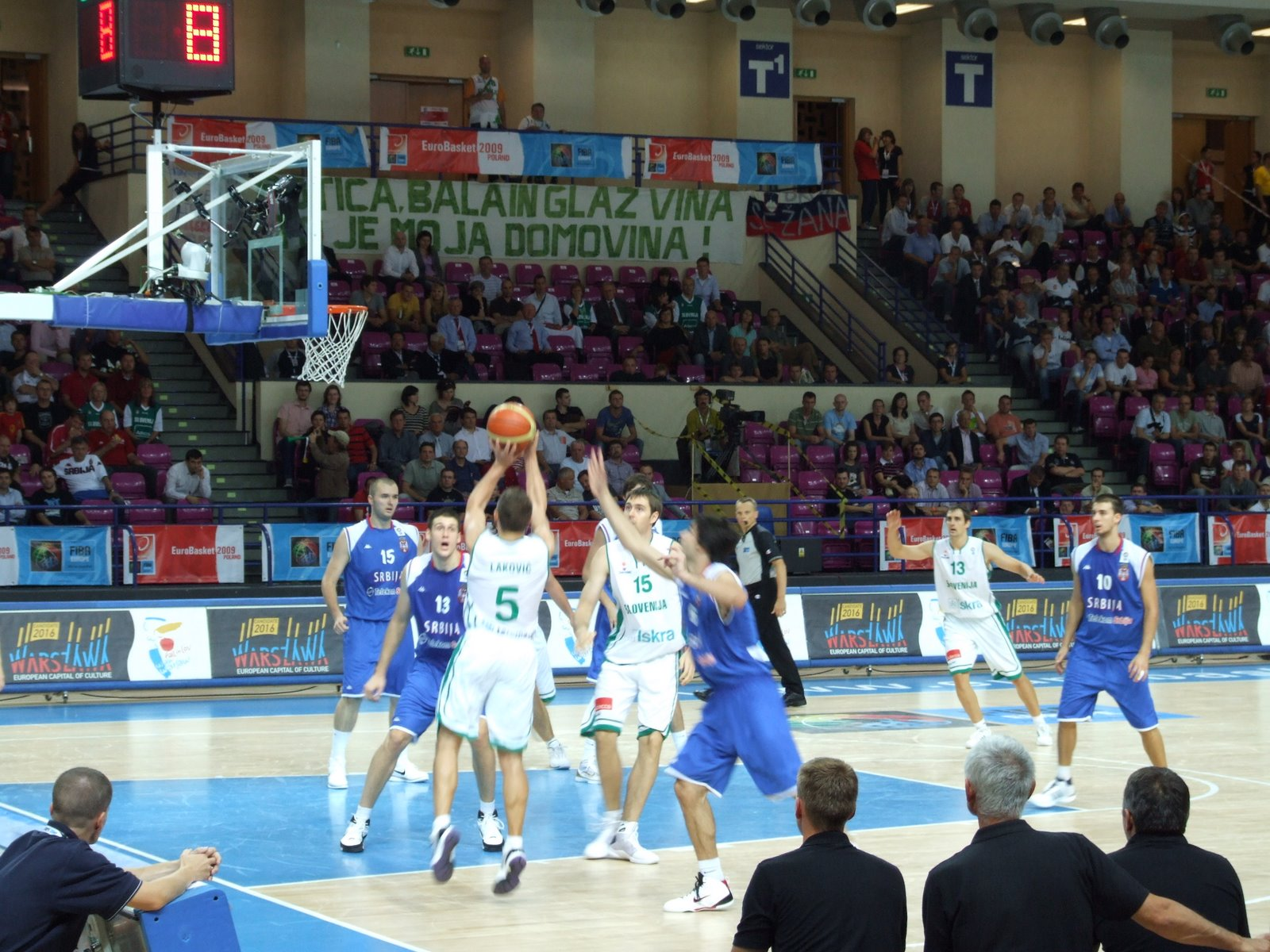 Slovenia vs. Serbia at EuroBasket 2009.